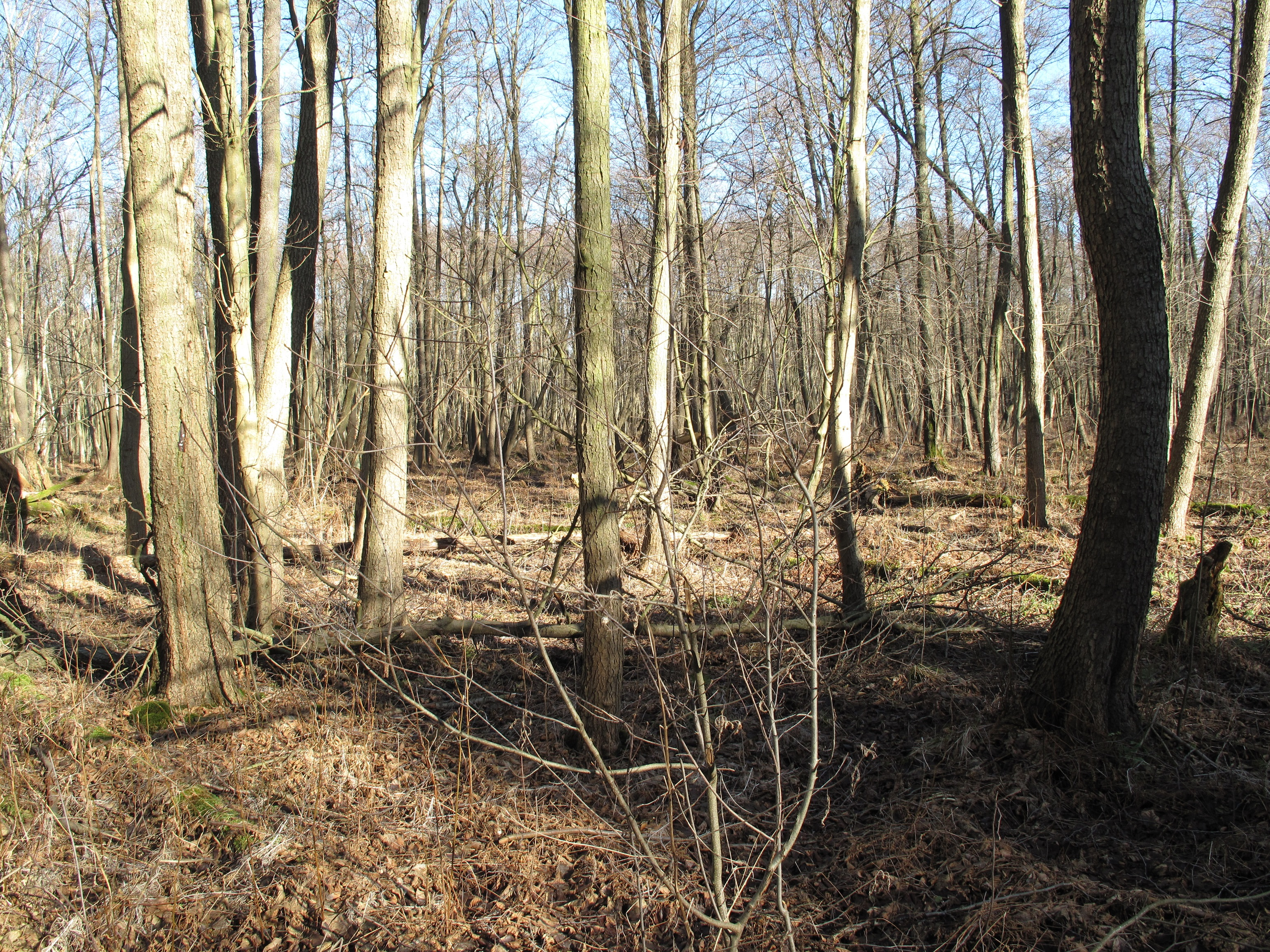 The Naturschutzgebiet Linowsee-Dutzendsee is a Naturschutzgebiet (protected area) and Natura 2000-area in the districts Oder-Spree and Dahme-Spreewald in Brandenburg, Germany. The area covers about 60 hectare and is situated in the Dahme-Heideseen Nature Park. Central parts of the area are the very shallow lake Linowsee and the terrestrialisation mire of the former Dutzendsee (pictured).